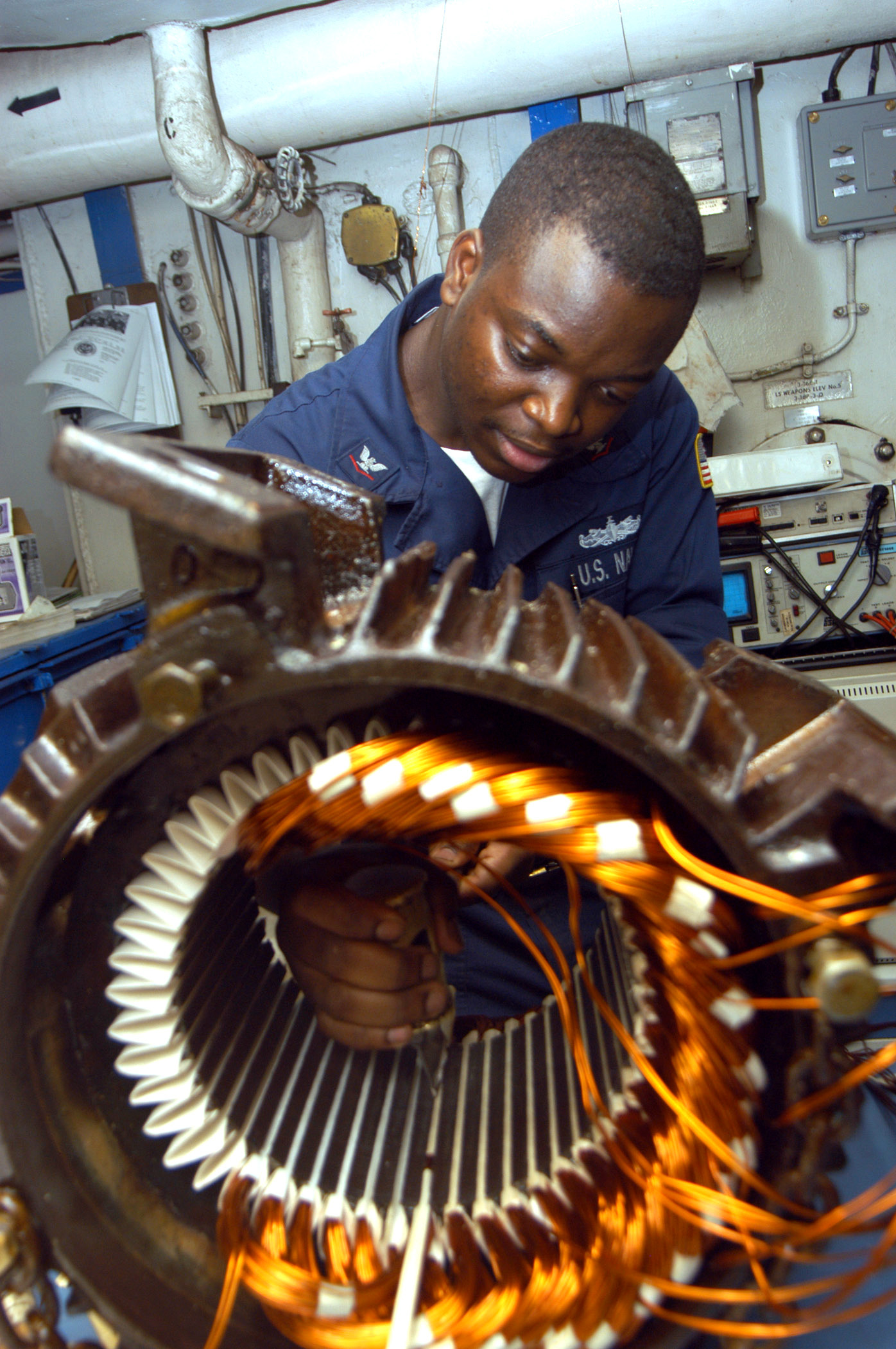 Arabian Gulf (Sept. 2, 2004) - Electrician's Mate 3rd Class Tayo Gbadebo from Lagos, Nigeria, rewires the motor from an Aqueous Film Forming Foam (AFFF) Sprinkler System’s pump during a routine maintenance in the Machine Shop aboard the conventionally powered aircraft carrier USS John F Kennedy (CV 67). The machine shop troubleshoots equipment, makes mechanical and electrical repairs throughout the ship. The Kennedy and Carrier Air Wing Seventeen (CVW-17) are operating in the 5th fleet area of responsibility (AOR) in support of Operation Iraqi Freedom (OIF). Units in the Kennedy Strike Group are working closely with Multi-National Corps-Iraq and Iraqi forces to bring stability to the sovereign government of Iraq. U.S. Navy photo by Photographer’s Mate 2nd Class Jason Jacobowitz (RELEASED)